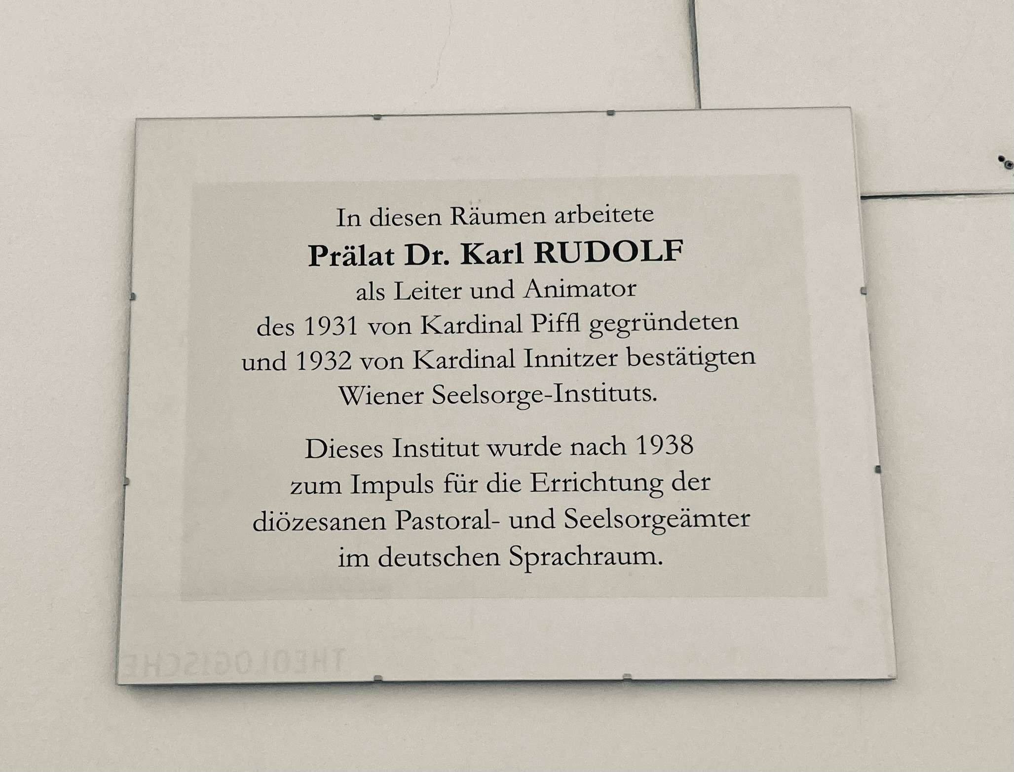 Memorial plaque for prelate Dr. Karl Rudolf in Vienna